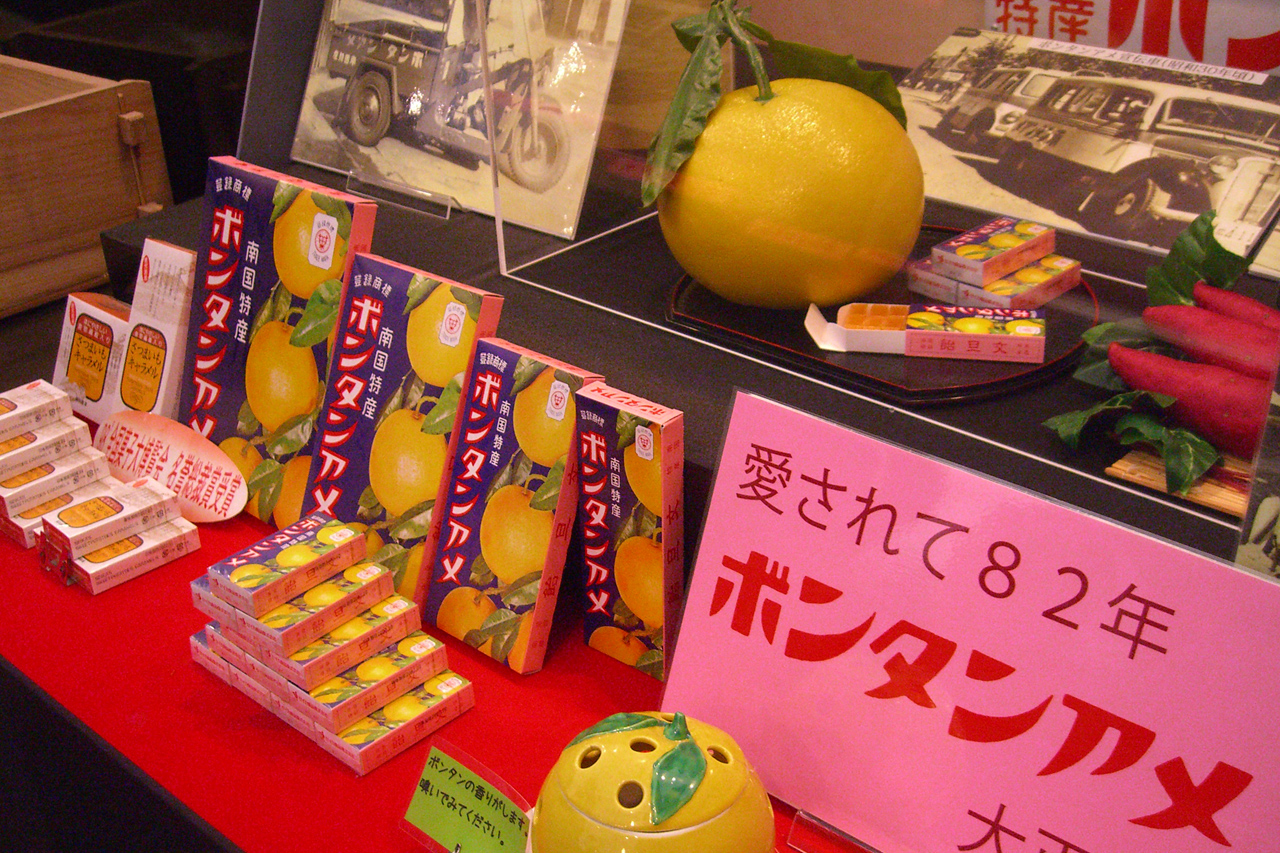 This candy appeared in Taisho Period. Japanese Candy "Bontan Ame"